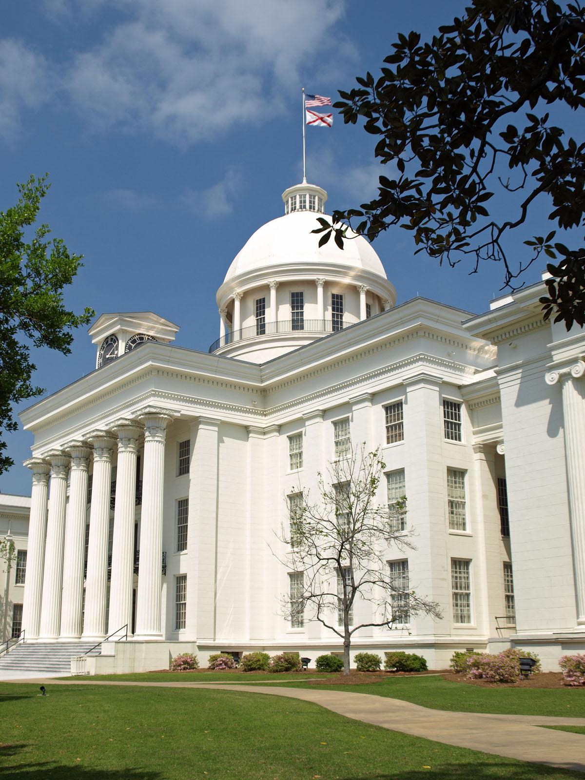 Front view of the Alabama State Capitol, from the southwest